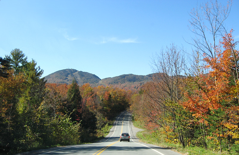 Road to Orford